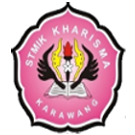 Go Opensource